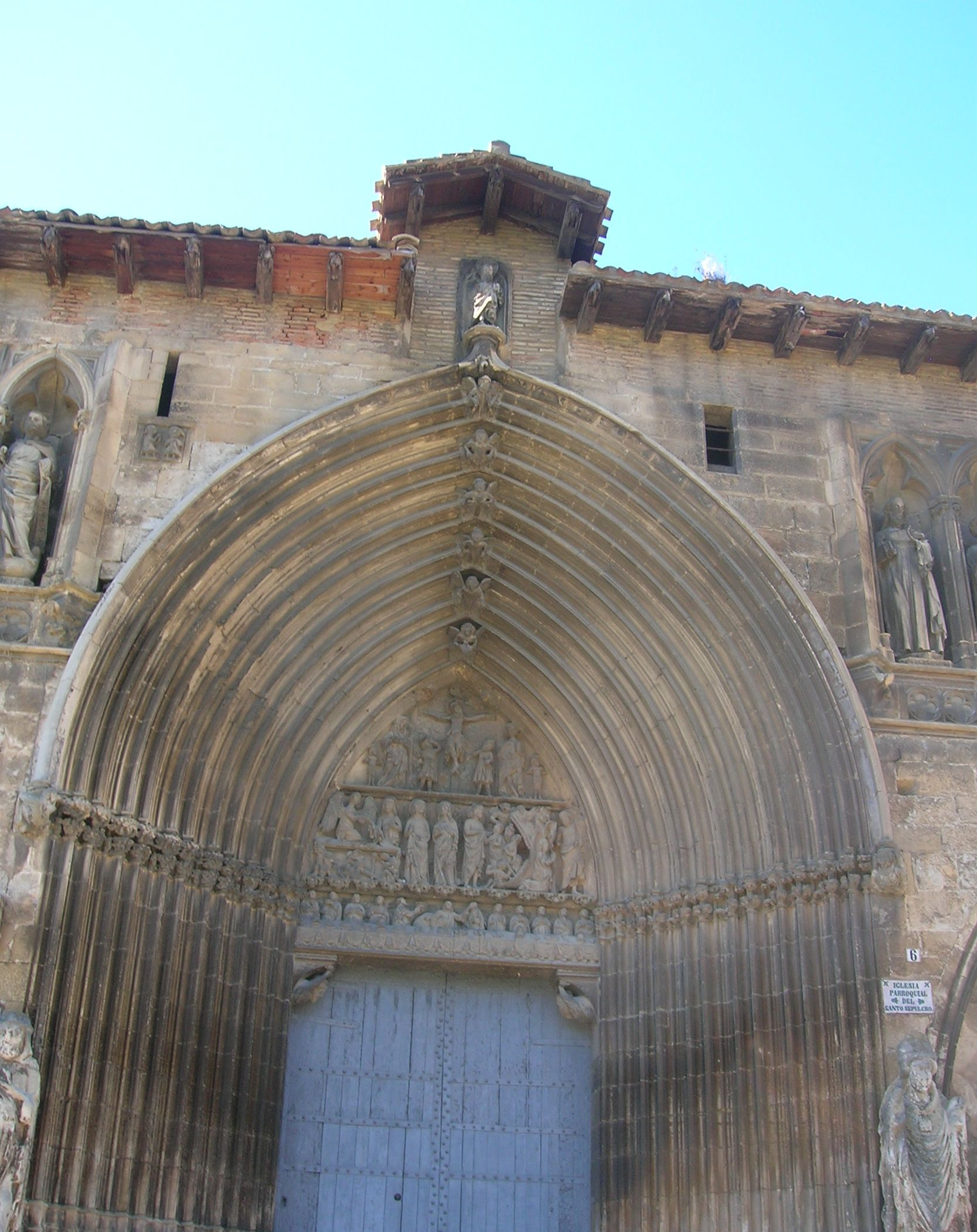 Santo Sepulcro de Estella's portal archivolts